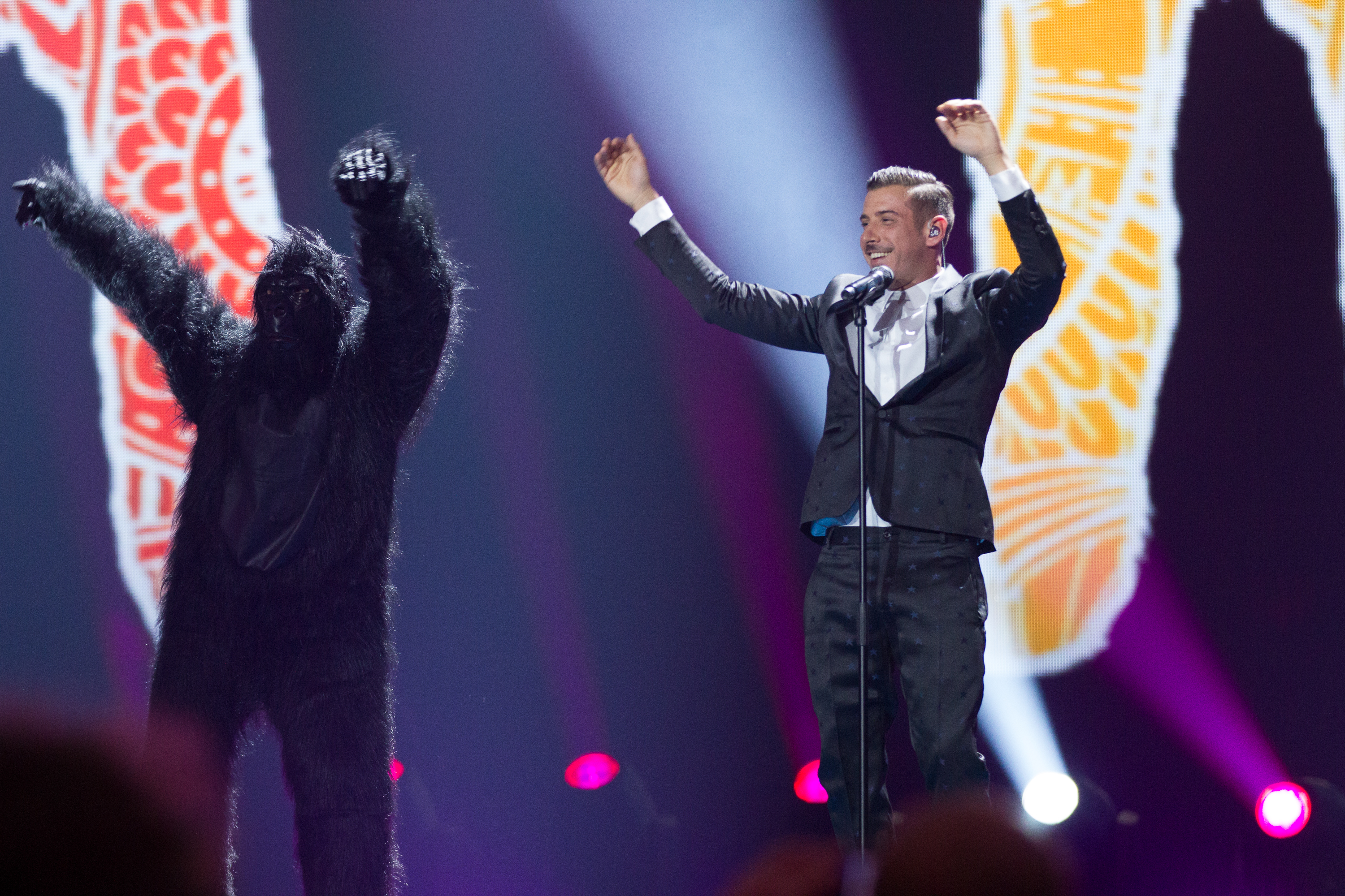 Italy 2017 - First Semi-Final Dress Rehearsal